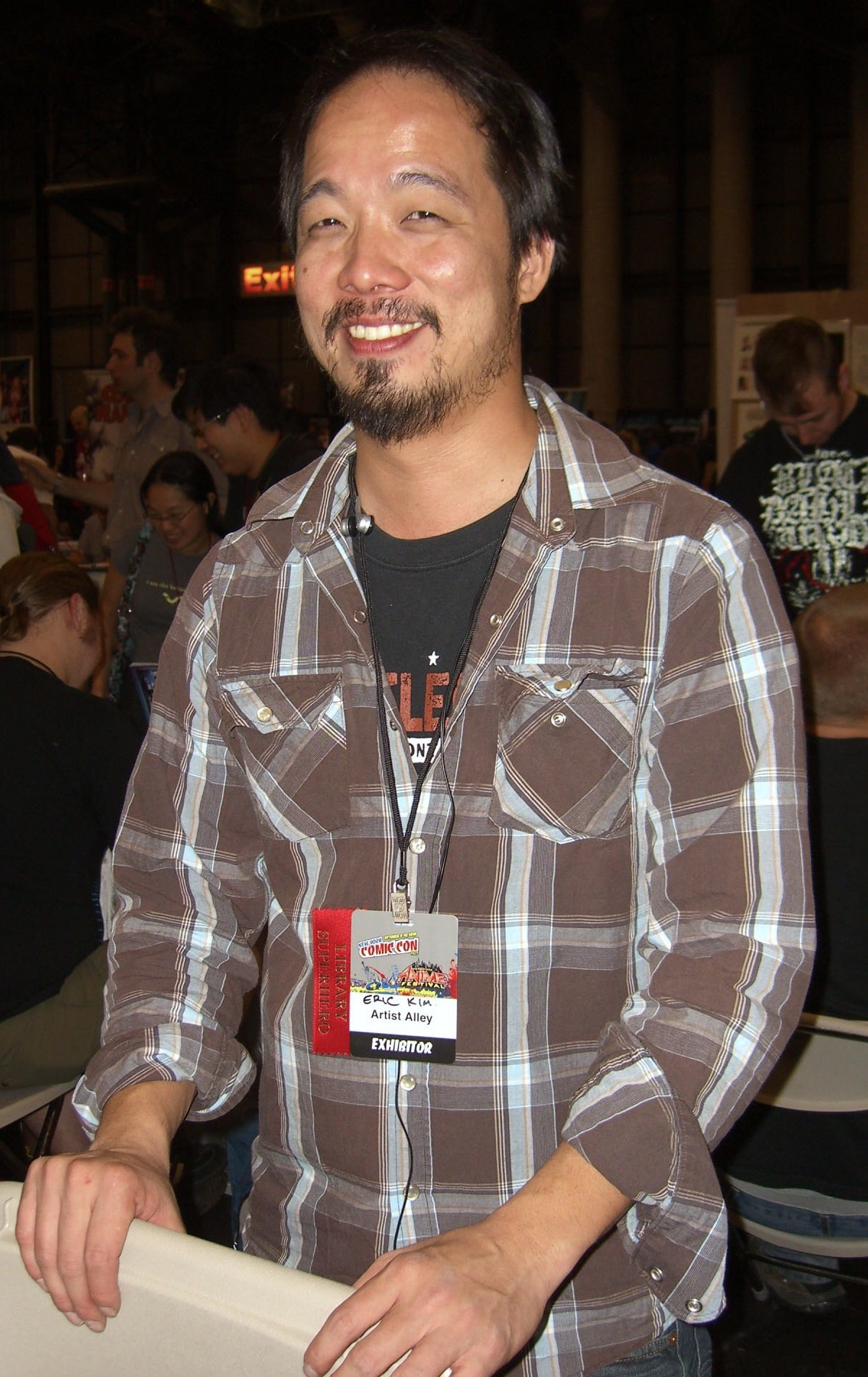 Comic book creator Eric Kim, at the New York Comic Convention in Manhattan, October 10, 2010. Photo by Luigi Novi. This photo may be used, modified and published for any purpose, only if a easily visible credit to the photographer is placed near the photo in each instance in which it is used. (See licensing information below.) Publication of this photo without this proper attribution constitute copyright infringement. For more information on my photos, you can contact me here.